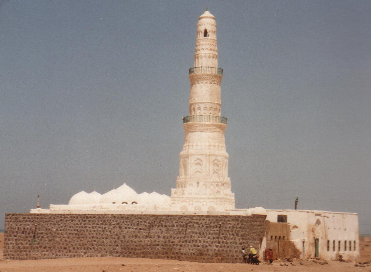 A mosque in Mocha, Yemen, 1996